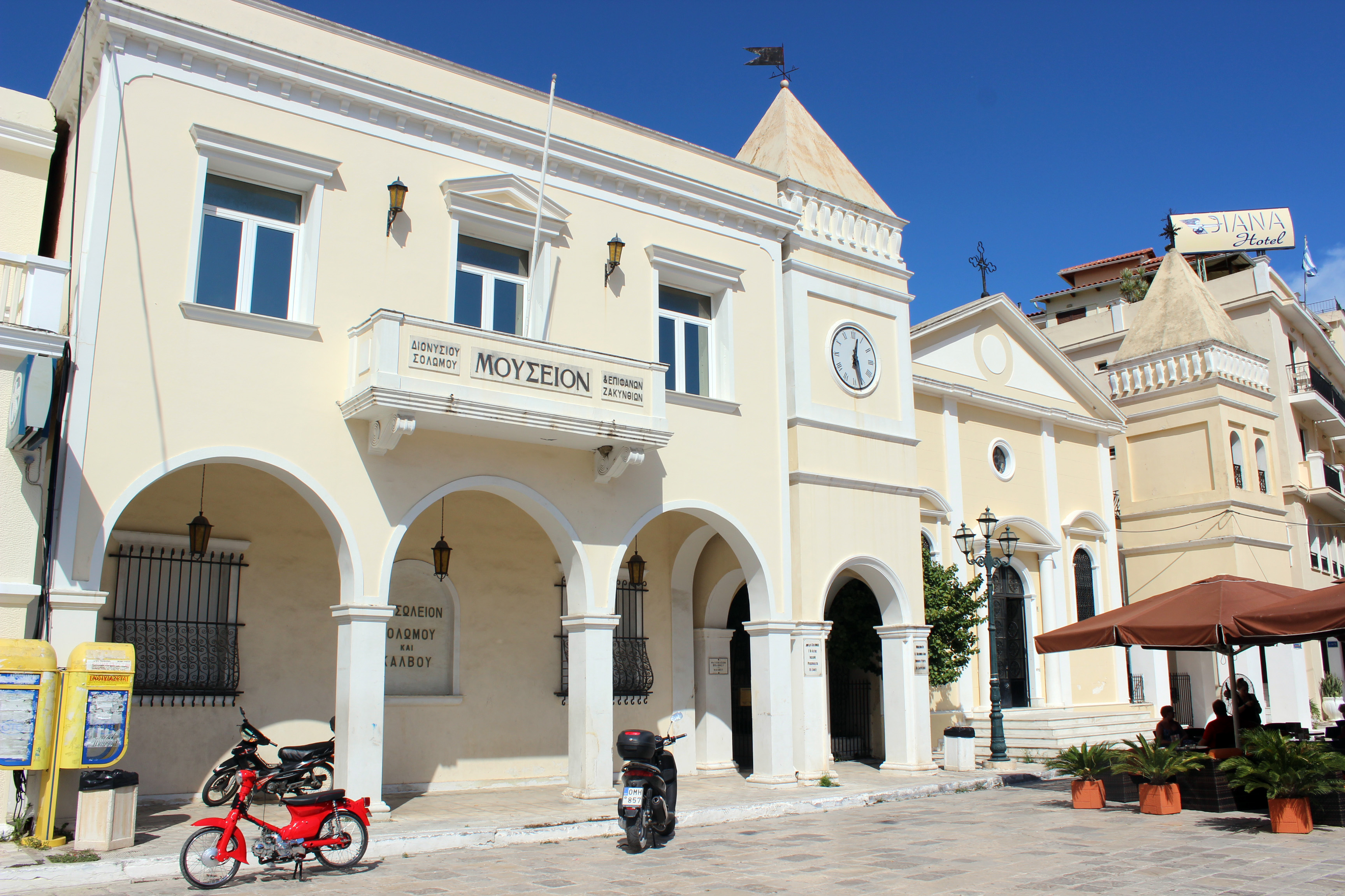 Museum of Dionysios Solomos and Saint Mark’s Church, at the Platía Agíou Márkou (Piazza San Marco), in Zakynthos-City, Zakynthos, Greek Ionian Islands